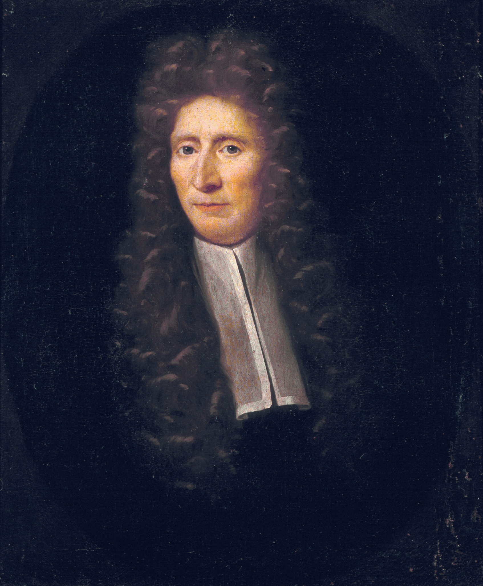 Frederik Ruysch (1638-1731) oil on canvas 49 x 41 cm 1694